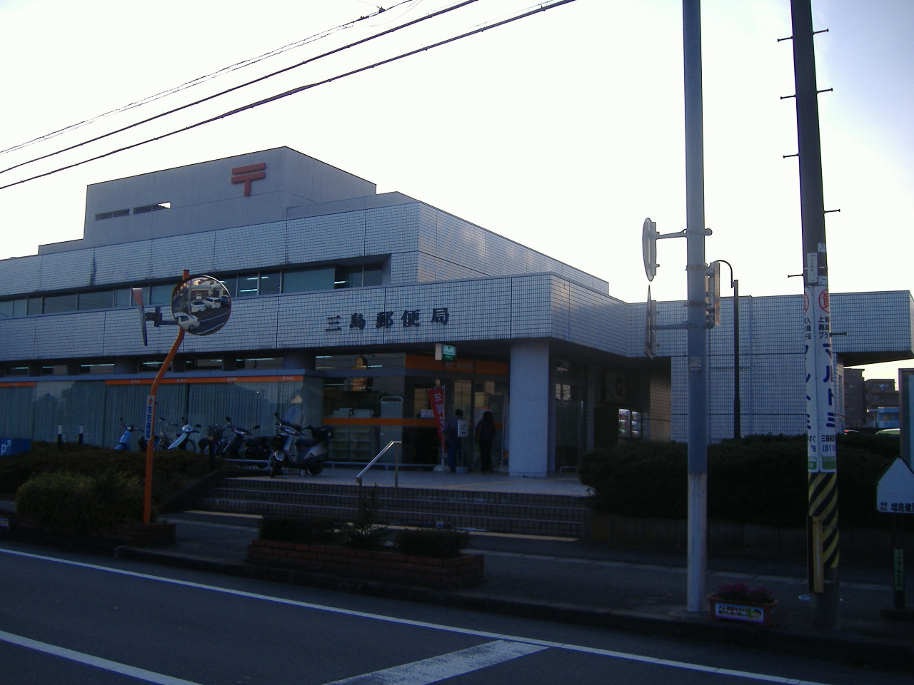 Mishima post office (Mishima, Shizuoka, Japan)